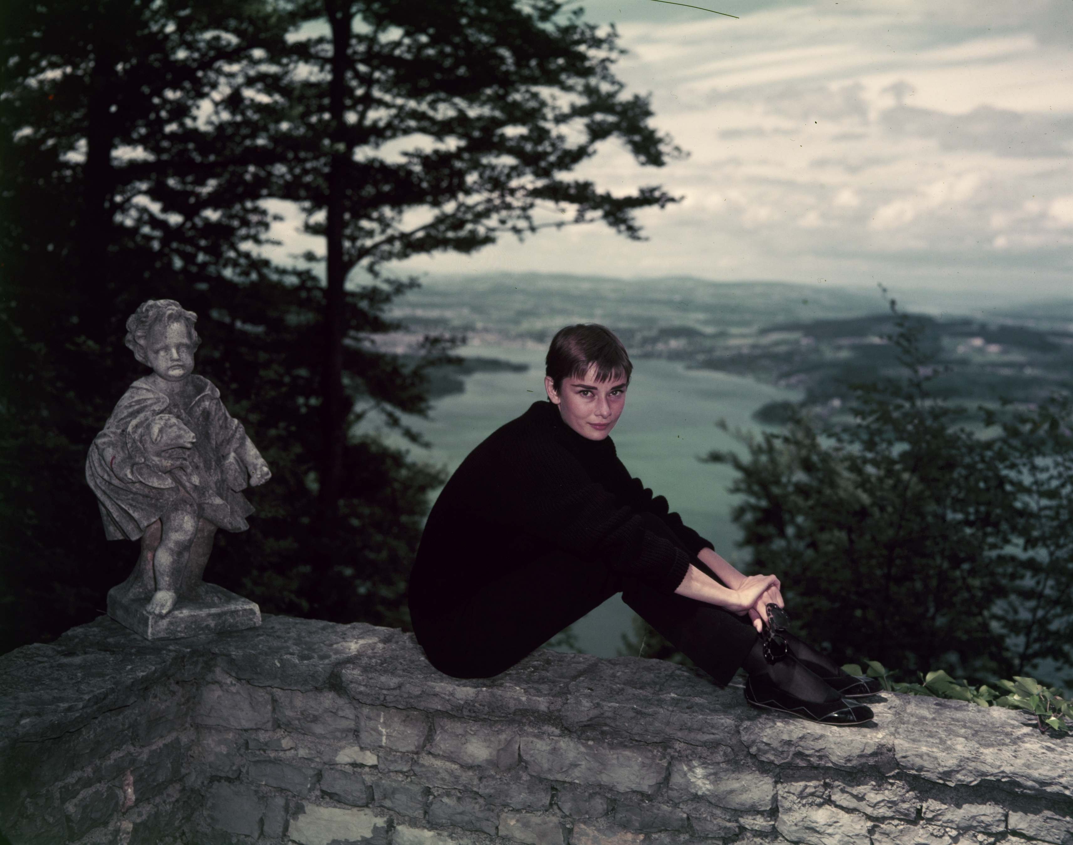 Audrey Hepburn, Bürgenstock, Switzerland